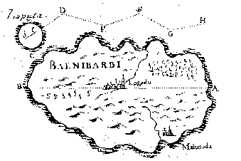 Map of Laputa and Balnibarbi for the 1726 edition of Jonathan Swift's Gulliver's Travels (or Travels into Several Remote Nations of the World)